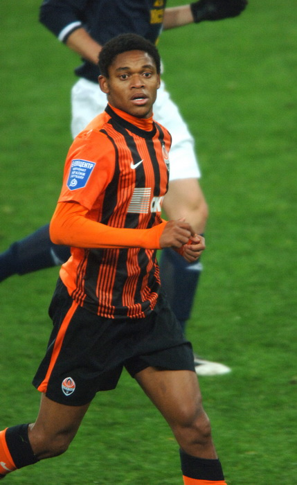 Luiz Adriano Striker Brazil shakatar